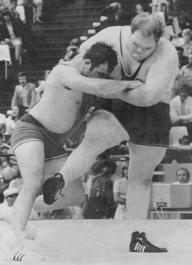 LG52 '72 Wire Photo CHRIS TAYLOR MOSLEM FILABI Olympic Freestyle Wrestling Match